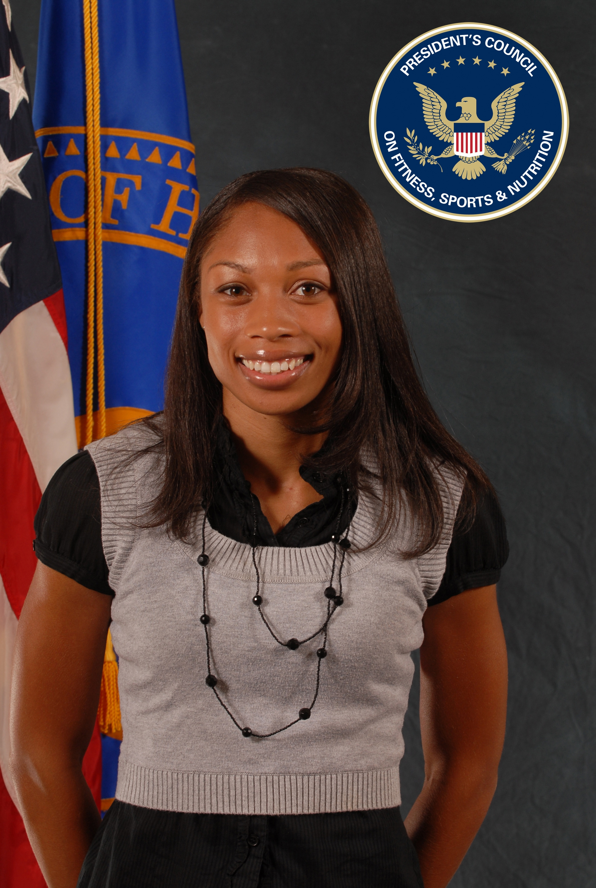 U.S. Track and Field Olympian and Member of the President’s Council on Fitness, Sports and Nutrition Allyson Felix says good nutrition has improved her health and gives her the energy she needs to perform like a champion. The new nutrition standards established by the Healthy, Hunger-Free Kids Act at the U.S. Department of Agriculture (USDA) represent an important step in America’s fight against childhood obesity and will help promote healthy eating habits for youth in America’s schools. These standards promote a balanced diet of additional fruits and vegetables, low-fat dairy products, lean proteins, and whole grains, while eating less sugar, saturated fat, and sodium.